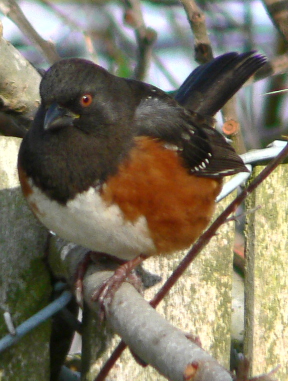 Spotted Towhee